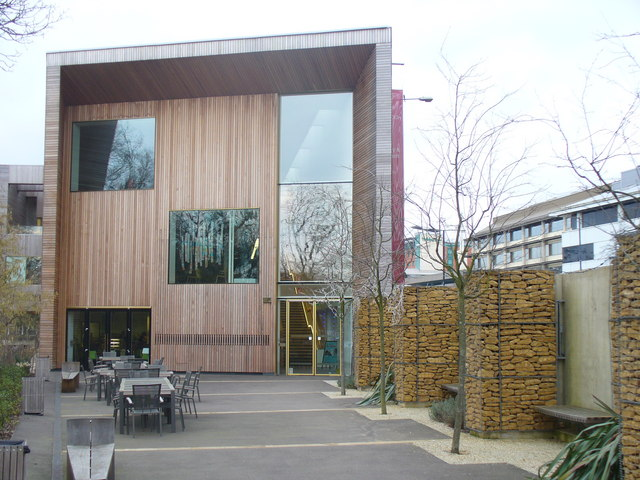 The Lightbox Woking's new gallery and museum, on the banks of the Basingstoke Canal by Chobham Road Bridge.